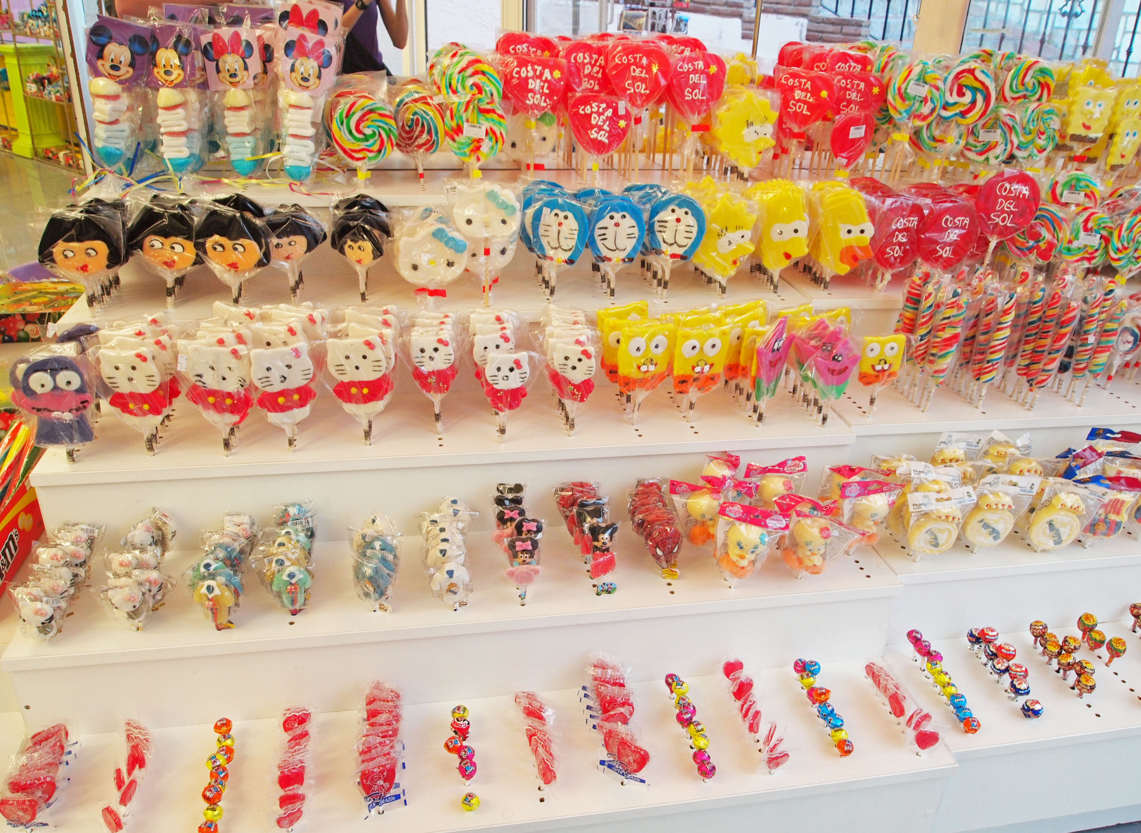 Lollipops in a candy store, Torremolinos.